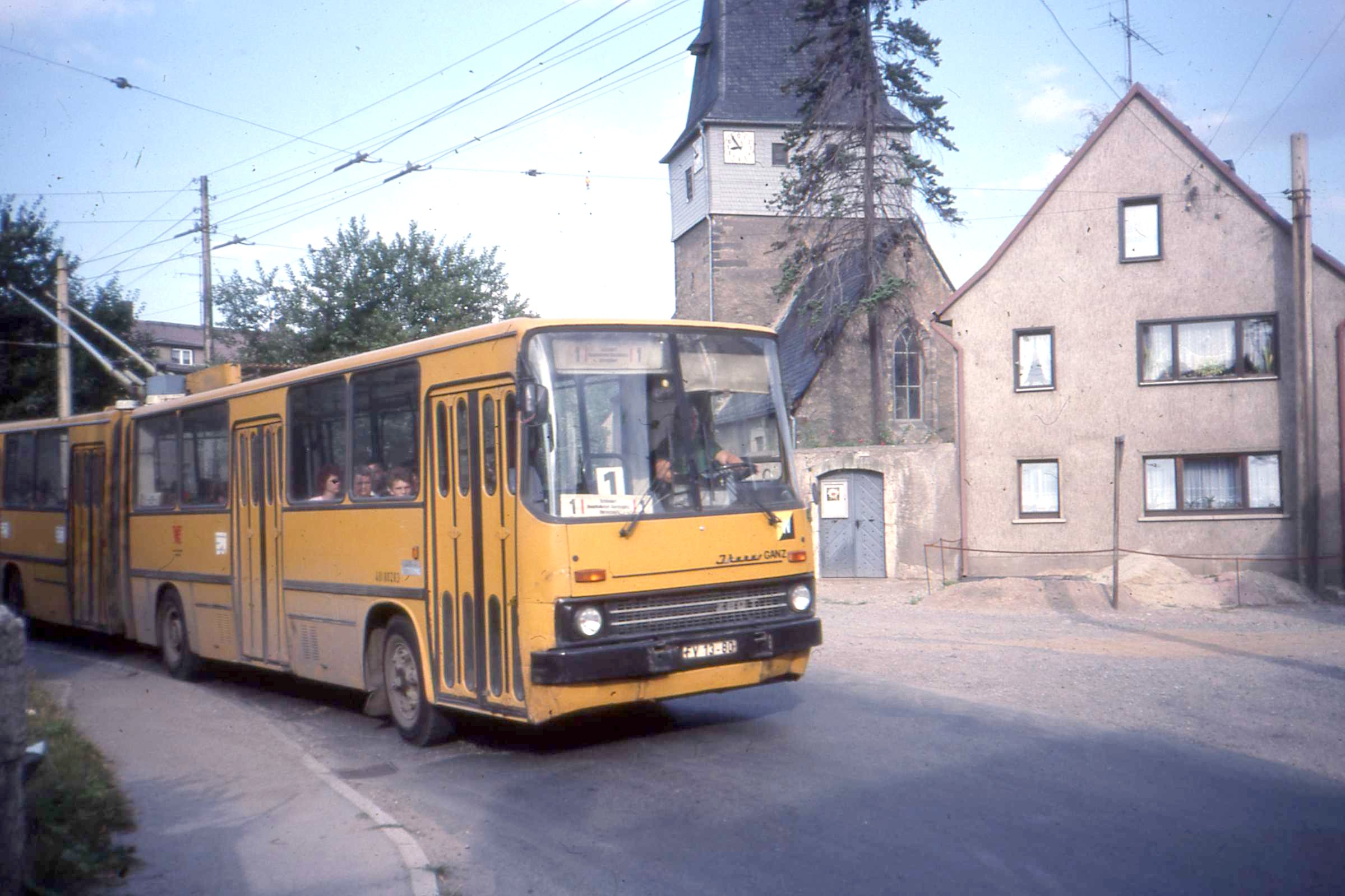 Ikarus 280T trolleybus in Weimar, former East Germany